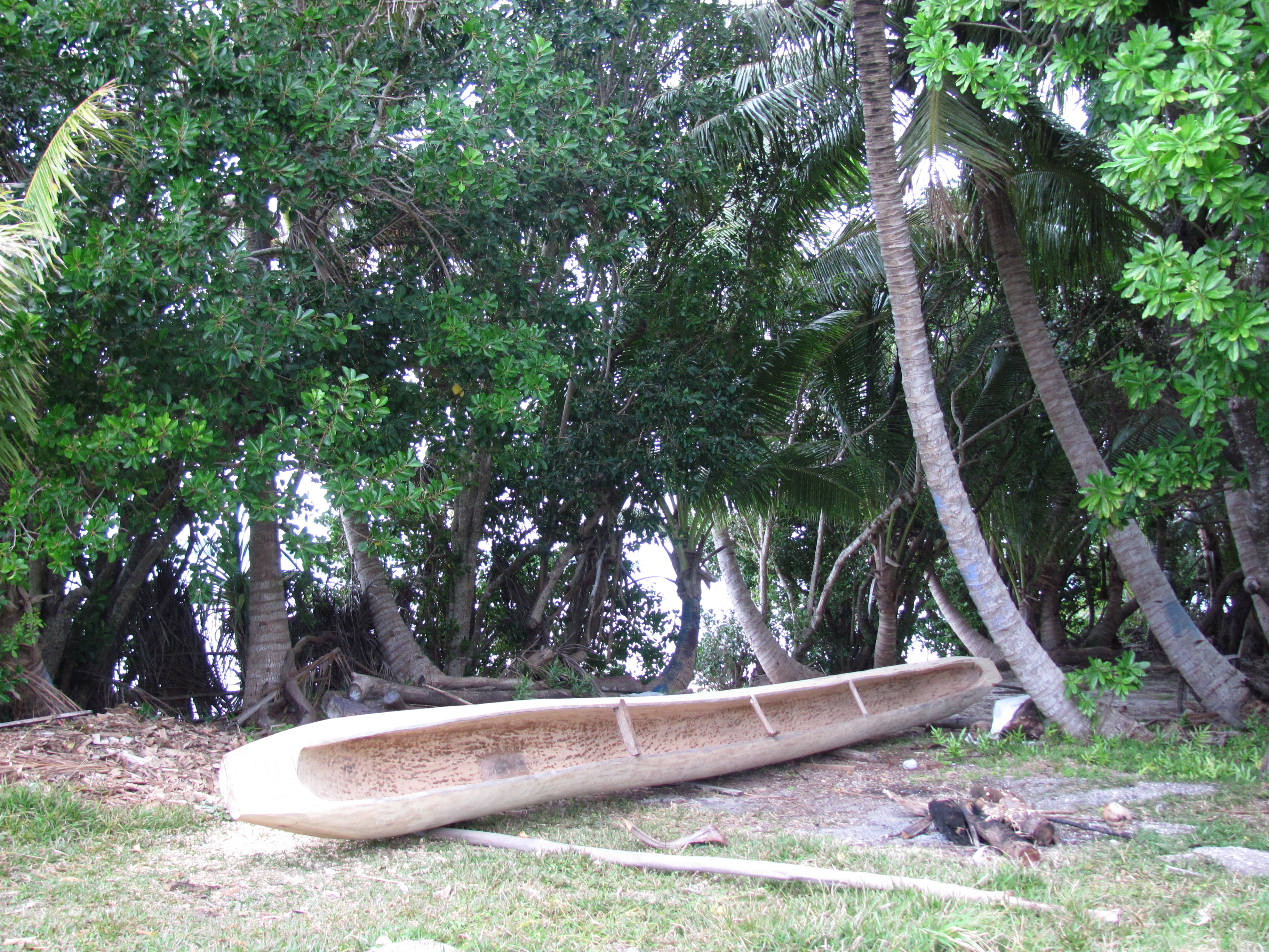 Pirogue dockyard near Vao, Ile des Pins, New Caledonia